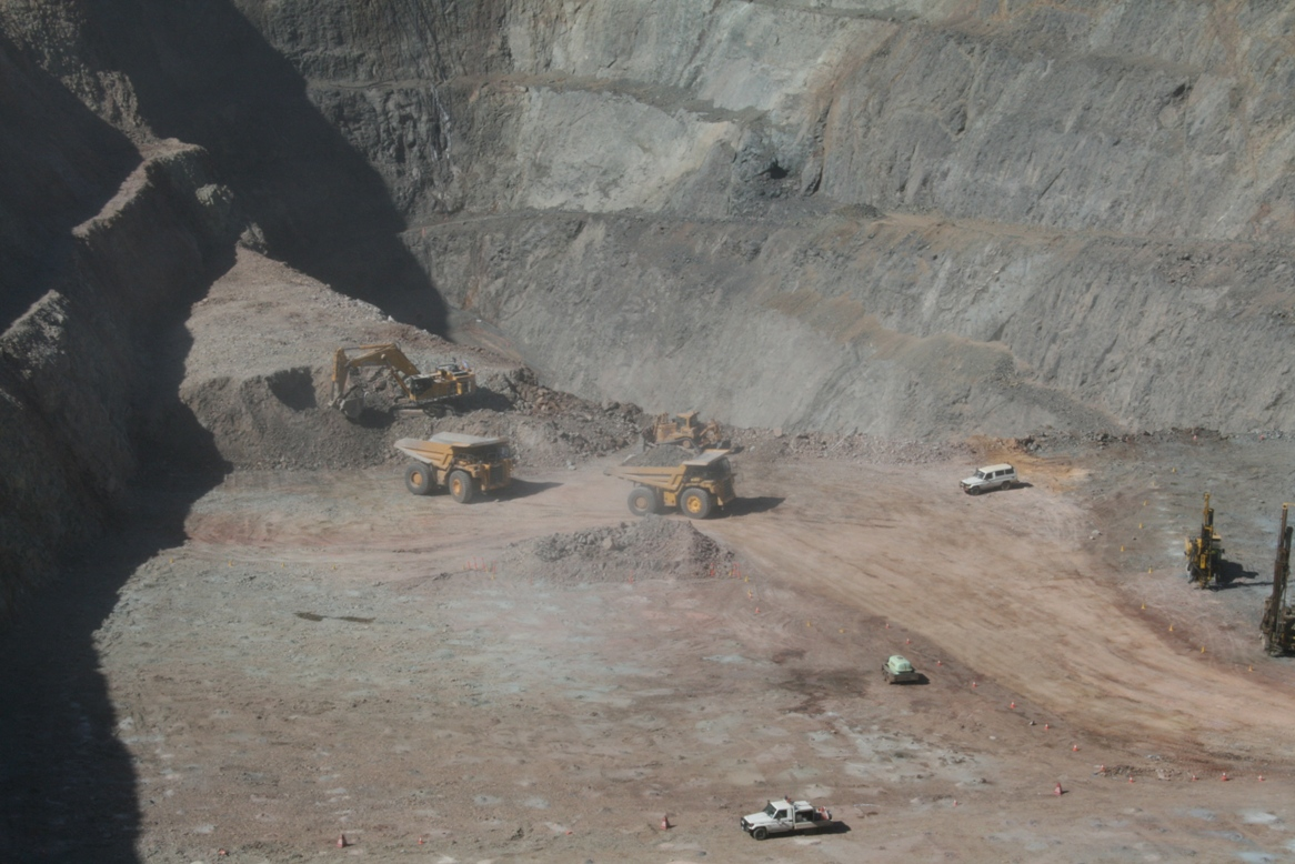 Wiluna Gold Mine East Pit, mining in 2007